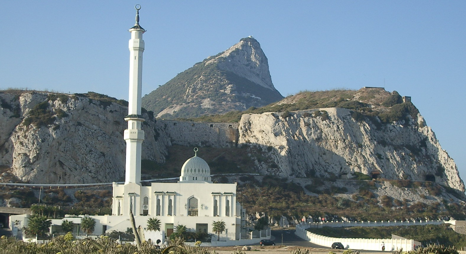 The Mosque King Fahd ben Abdelaziz Al Saaud at Europa Point, Gibraltar. Photographed by Atiemann (September 2004) and released to public domain.